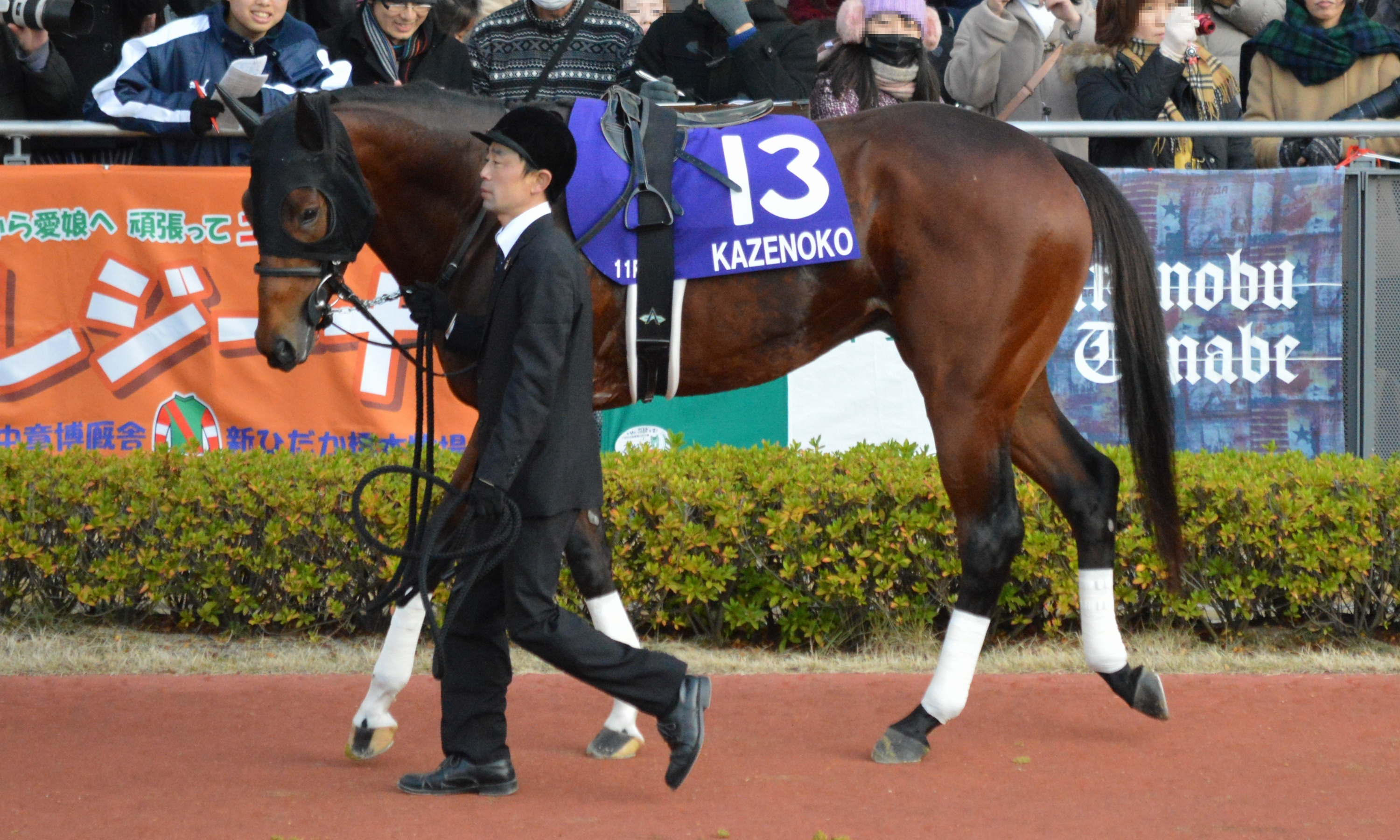 Japanese race horse Kazenoko at Chukyo racecourse. Chukyo (JPN) 07 Dec 2014 Champions Cup (ex Japan Cup Dirt) (Grade 1) (3yo+) (Dirt) 1m1f Standard RankHorse NameOddsAgeWgtTrainerJockey1stHokko Tarumae (JPN)49/10H59-0Katsuichi NishiuraHideaki Miyuki2ndNamura Victor (JPN)197/10H59-0Nobuharu FukushimaFutoshi Komaki3rdRoman Legend (JPN)61/10H69-0Hideaki FujiwaraYasunari Iwata4th - 6th/omission7thKazenoko (JPN)65/1C38-11Kenji NonakaShinichiro Akiyama